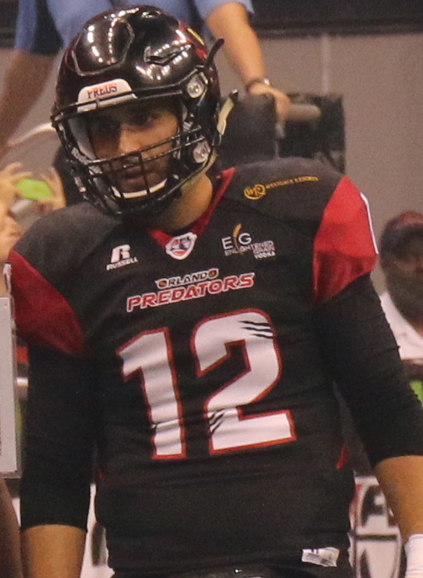 ORLANDO, Fla. – The Headquarters and Headquarters Company, 143d Sustainment Command (Expeditionary) Color Guard presented our nation’s colors to more than 11,000 screaming fans who waited to see the Orlando Predator take on the Los Angeles Kiss at the Amway Center here, Saturday, April 18, 2015. The Orlando Predators are a professional arena football team based in Orlando, Florida. The team is part of the South Division of the American Conference of the Arena Football League. “The 143d color guard did an outstanding job as usual,” said Mr. Adrian Robles, the community relations director for the Predators. "We always look forward to seeing them perform", he further added. Photos by Chief Warrant Officer 3 Desiree Felton